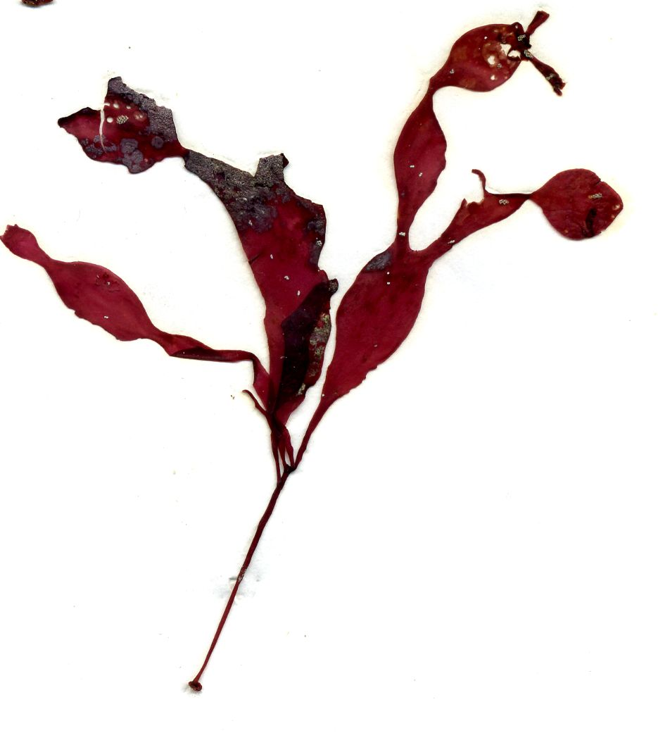 Phyllophora truncata (Pall.) Zinova = Coccotylus truncatus (Pallas) M.J.Wynne & J.N.Heine, herbarium sheet. Collected 1987-09-12, Heligoland (Germany)